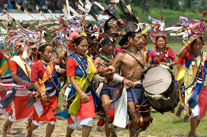 The Dancers from Tutsa sub tribe of Tangsa of Changlang district are dancing during their festival called Pongtu